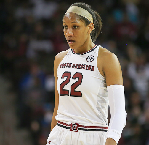 Photo by Chris Gillespie